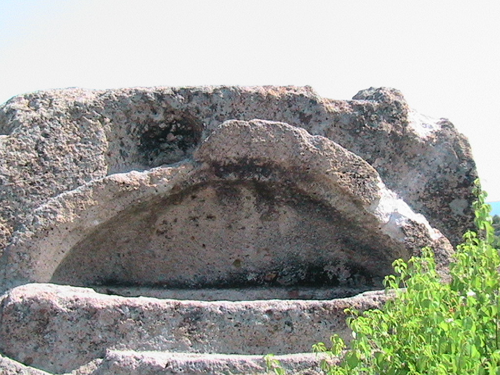 Archaelogical site of Tatul, Bulgaria - thracian mound with sarcophagus on top. Date taken: 2 June 2006, Author K.Popova 1024x768 px, 311 KB